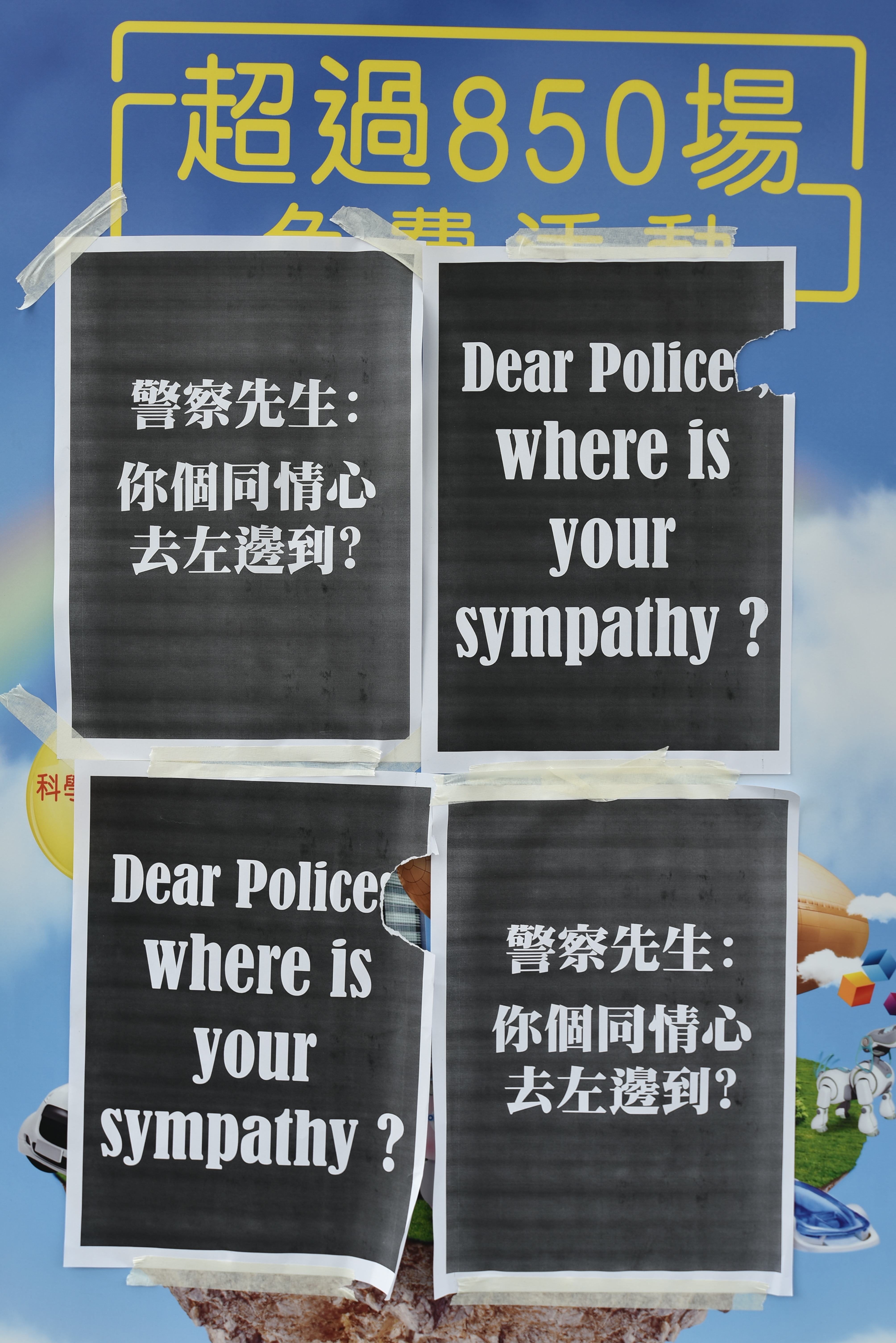 Umbrella Revolution